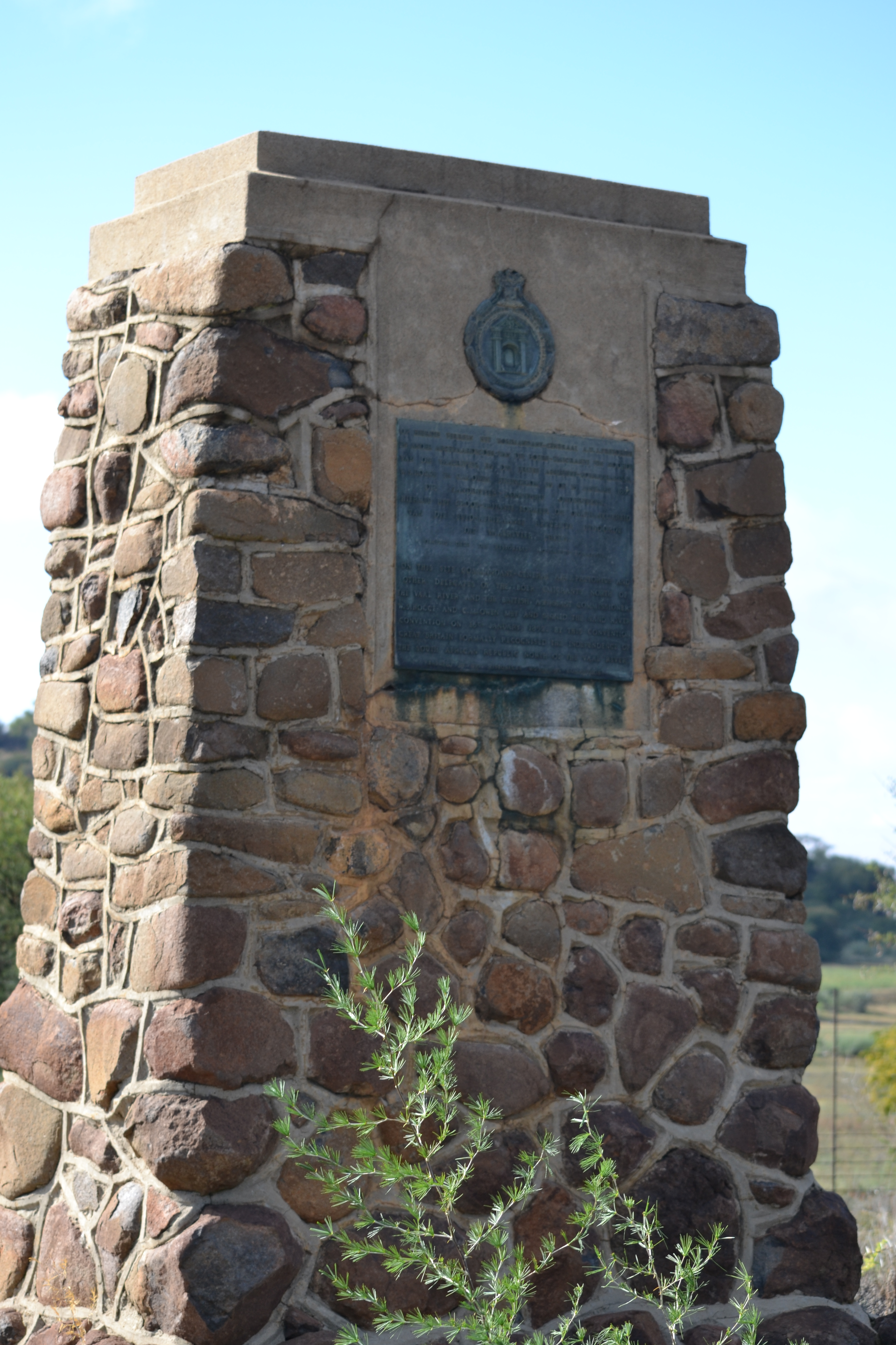 1852. Freestate.